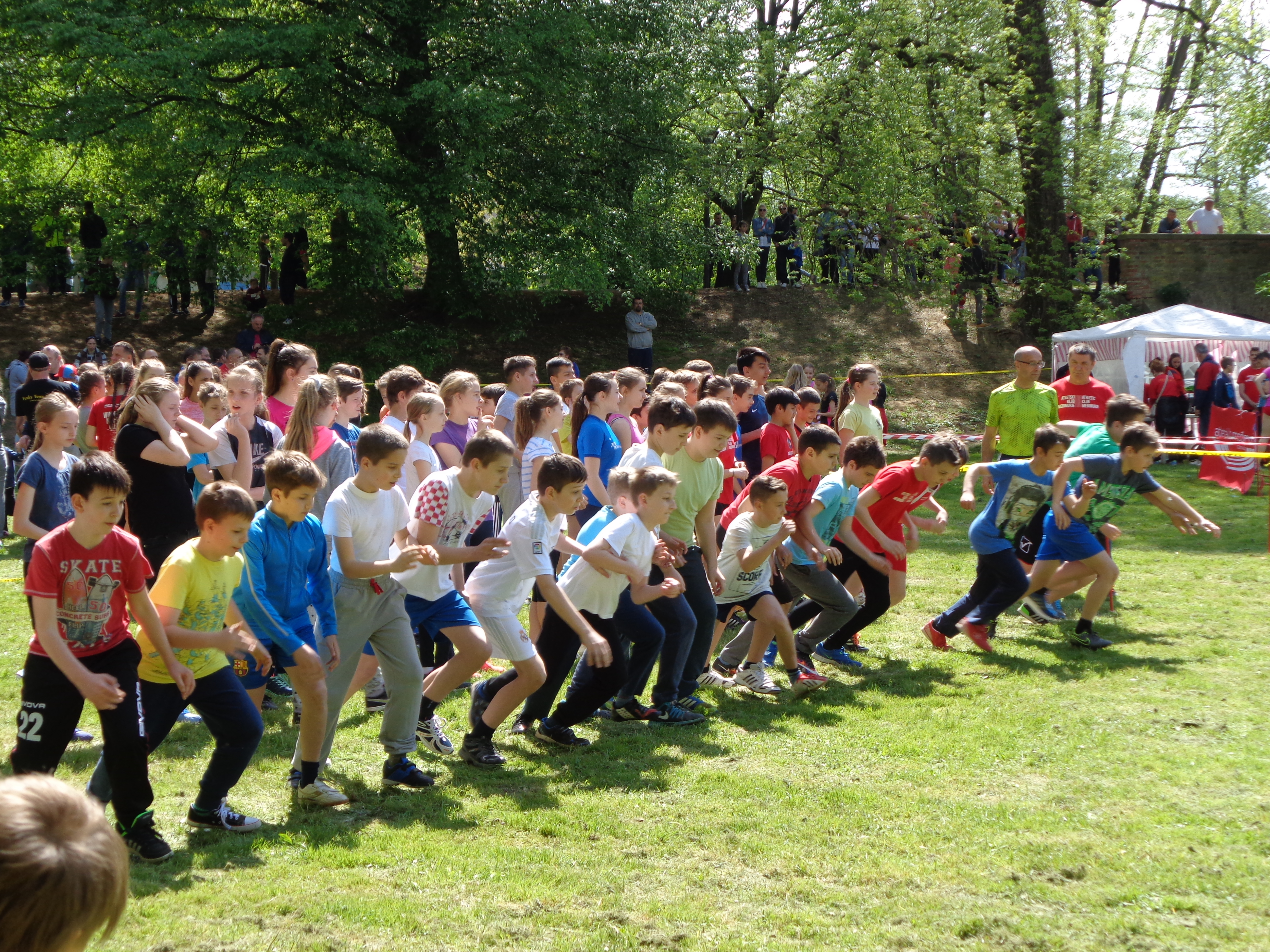 Medjimurje County Springtime 2016 Cross-Country Race in Čakovec, Croatia - boys' start